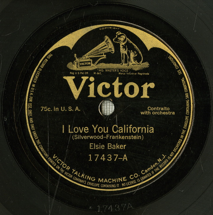 I Love You, California (Dlc victor 17437 01 b13742 05)